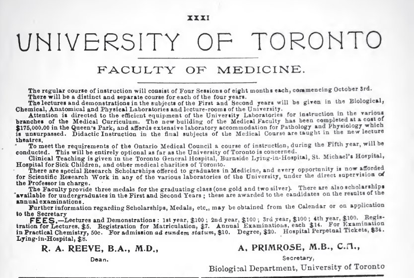 Ad taken from the January 1906 version of the Montreal Medical Journal, showing entry requirements for the University of Toronto Faculty of Medicine.